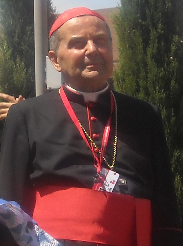 Cardinal Carlo Caffarra in Madrid for World Youth Day 2011.